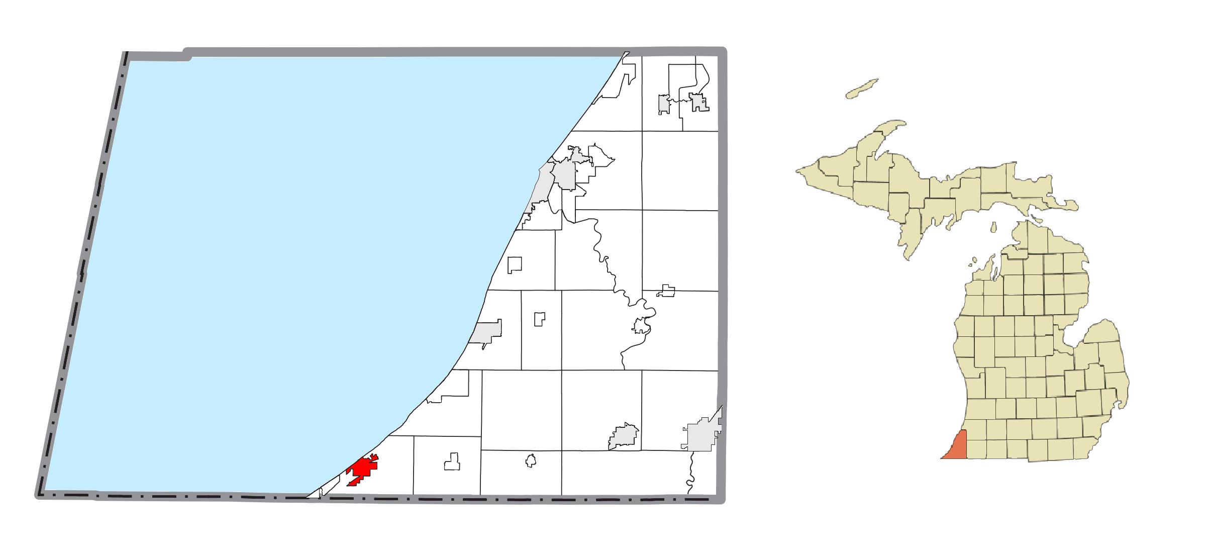 New Buffalo, MI